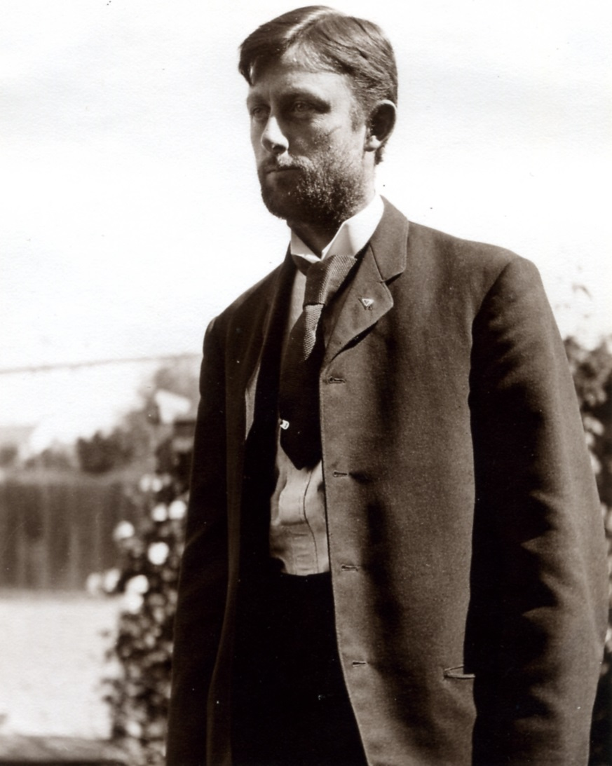 Forest entomologist Harry Eugene Burke, after a field season in the Yosemite country. Palo Alto, California. This photo and additional information (below) are about and by the author from his publication: H.E. Burke. 1946. My Recollections of the First Years in Forest Entomology. Berkeley, California. 37 p. H.E. Burke work history: Special field agent in codling moth investigations, July 1-September 30, 1902; special field agent, assistant forest expert, temporary field agent, expert and agent, entomological assistant, assistant in forest entomology, specialist in forest entomology, associate entomologist, entomologist, and senior entomologist in Forest Insect Investigations [Bureau of Entomology] from October 1, 1902 to June 30, 1932. In charge of forest insect investigations in Pacific States 1903-1907; specialist in flathead borers 1907-1910; in charge of northeastern Oregon bark beetle control project 1910-1911; in charge of Forest Insect Station 5 1911-1913; in charge of Pacific Slope Station 1913-1916; in charges of shade tree insect laboratory at Los Gatos, California, and Stanford University 1916-1925; forest insect investigations in national parks 1925-1930; shade tree insects 1930-1932; shade tree insects in Division of Fruit and Shade Tree Insects 1932-1934; retired without prejudice June 30, 1934. Author of numerous papers on flathead borers, forest insects, shade tree insects, and co-author of the book "Forest Insects" in the American Forestry Series. Photo by: Unknown Date: September 19, 1906 Credit: USDA Forest Service, Region 6, State and Private Forestry, Forest Health Protection. Source: H.E. Burke Collection digital files; Regional Office; Portland, Oregon. For additional historical forest entomology photos, stories, and resources see the Western Forest Insect Work Conference site: Image provided by USDA Forest Service, Pacific Northwest Region, State and Private Forestry, Forest Health Protection